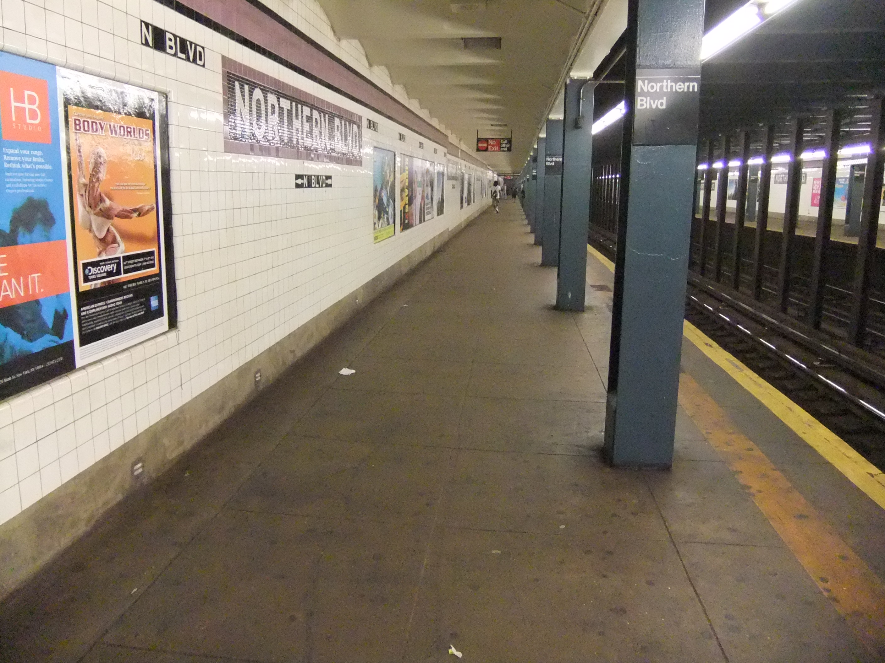 Manhattan bound platform at the Northern Blvd station.